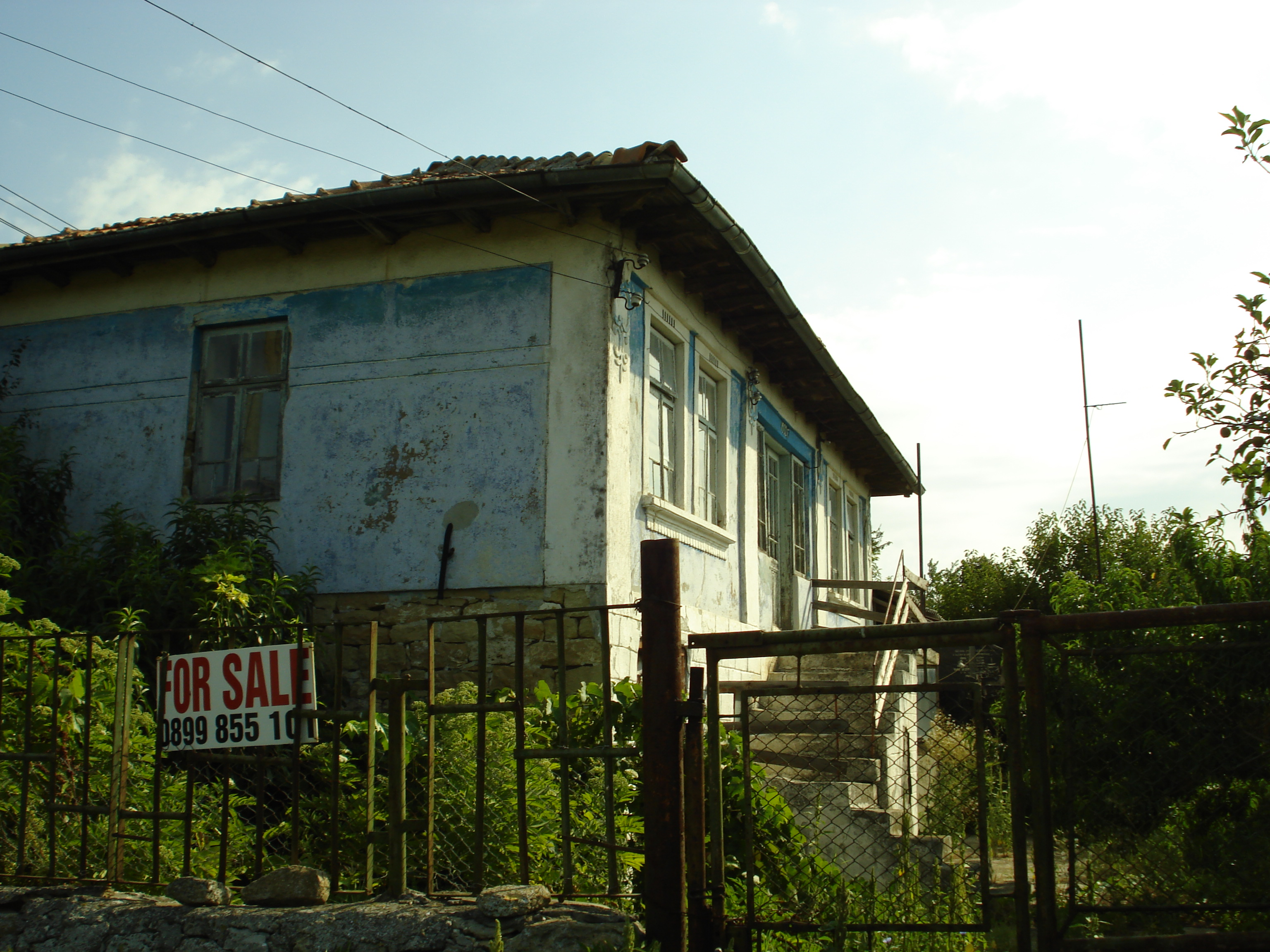 стара къща в село Левски